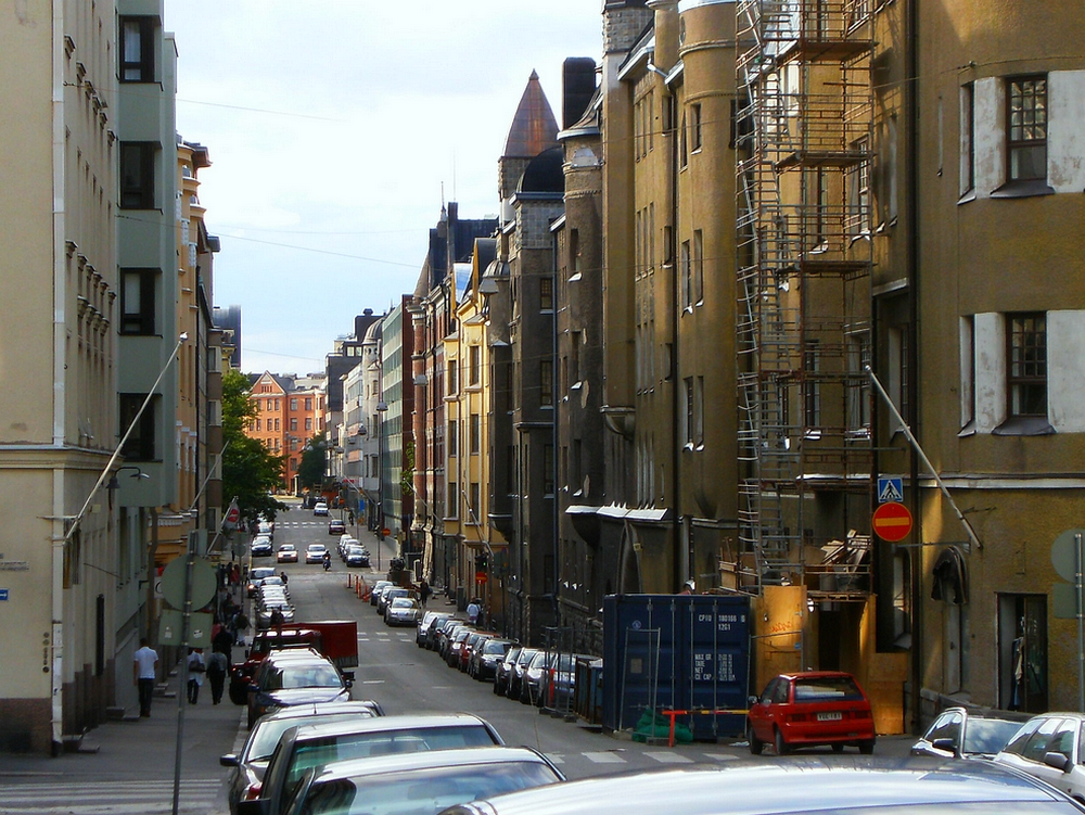 Albertinkatu, Helsinki, Finland